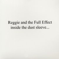 Inside the Dust Sleeve ... Under the Tray, by Reggie and the Full Effect. Published by Vagrant Records.